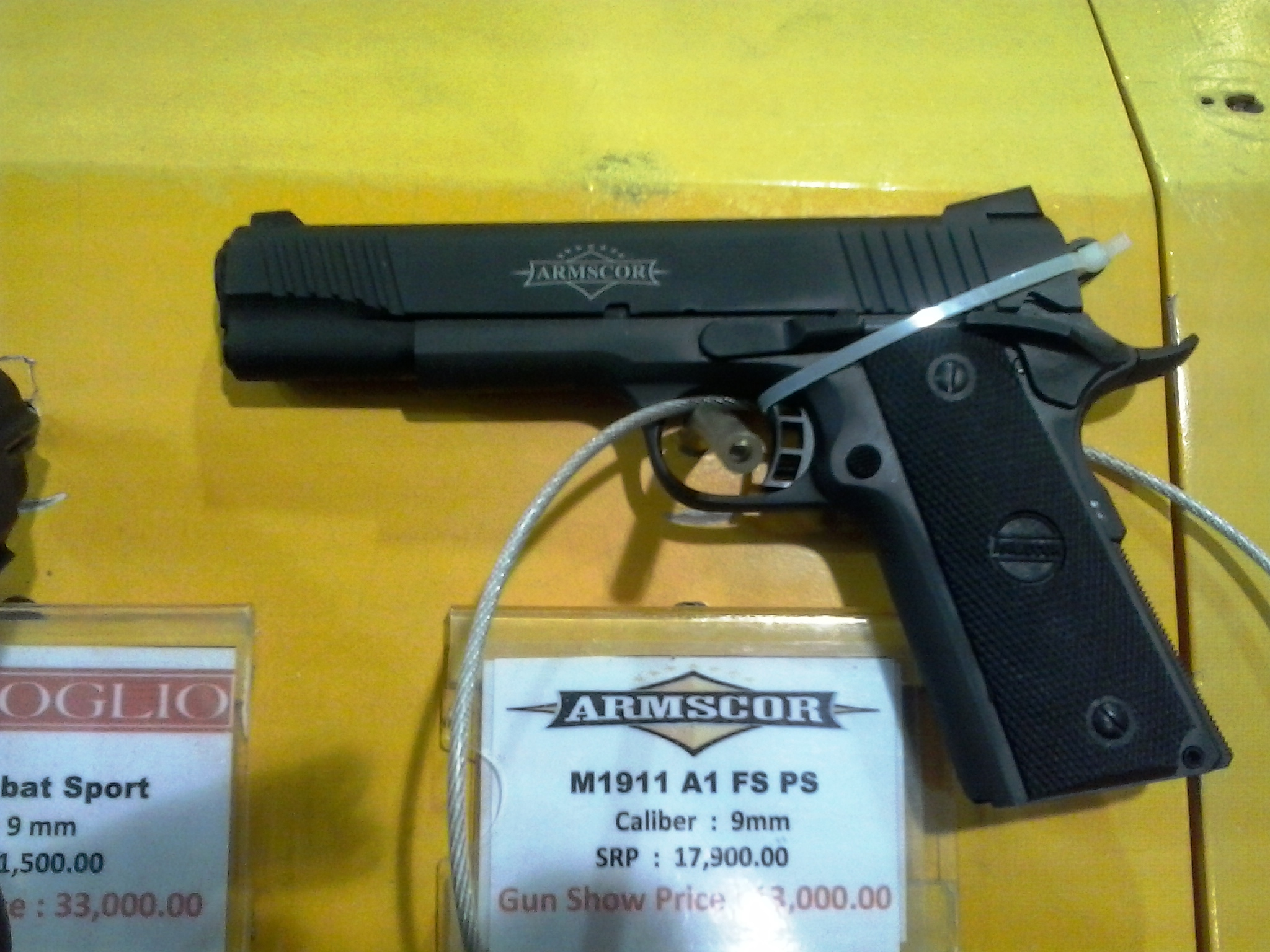 A 9mm Armscor 1911A1 full-size Practical series model on display during the 22nd Defense & Sporting Arms Show